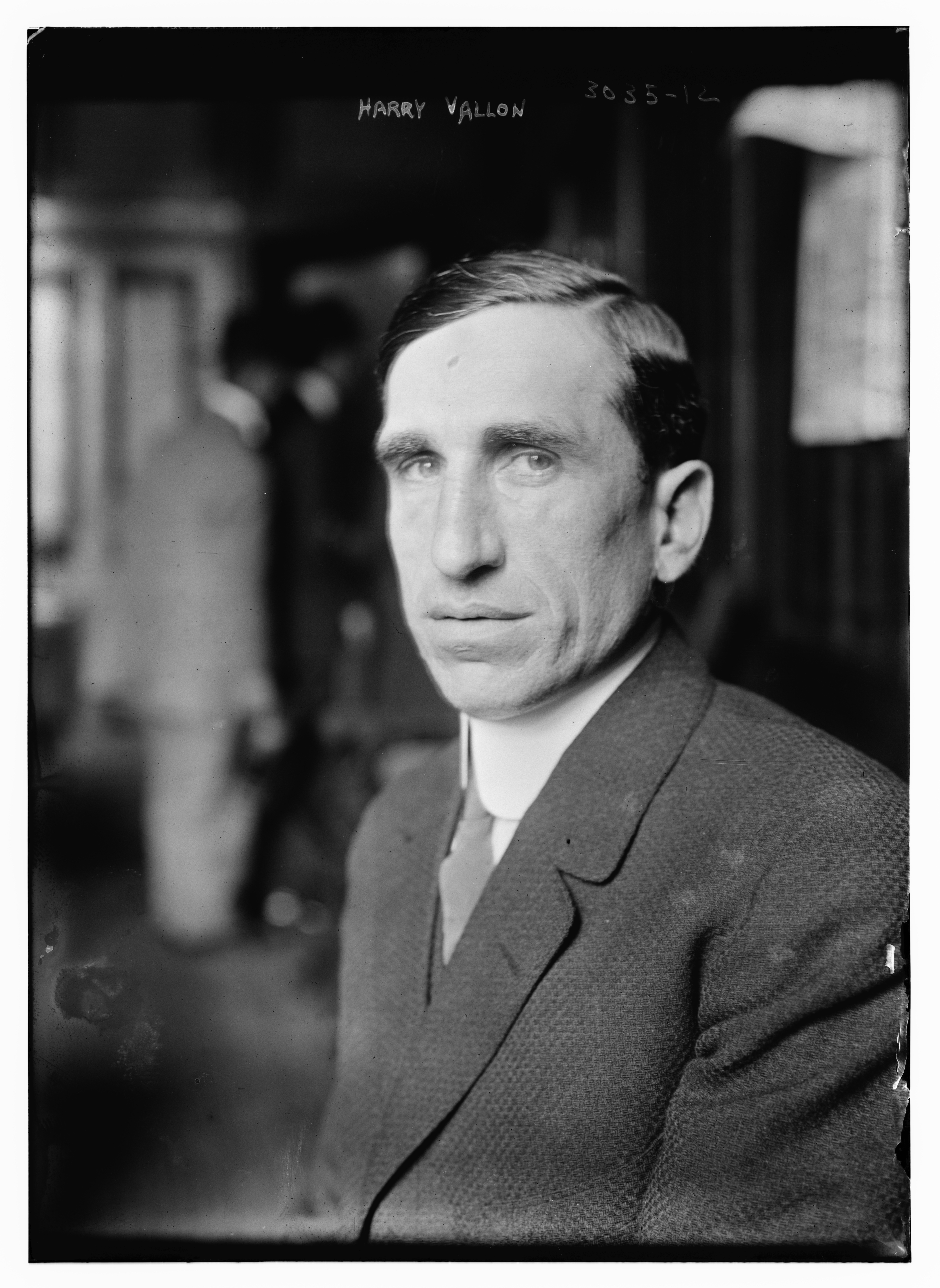 Bain News Service,, publisher. Harry Vallon in 1915 [between ca. 1910 and ca. 1915] 1 negative : glass ; 5 x 7 in. or smaller. Notes: Title from unverified data provided by the Bain News Service on the negatives or caption cards. Forms part of: George Grantham Bain Collection (Library of Congress). Format: Glass negatives. Repository: Library of Congress, Prints and Photographs Division, Washington, D.C. 20540 USA, General information about the Bain Collection is available at Persistent URL: Call Number: LC-B2- 3035-12